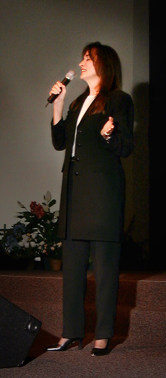 Christian singer/songwriter, Annie Herring singing in concert 2001.